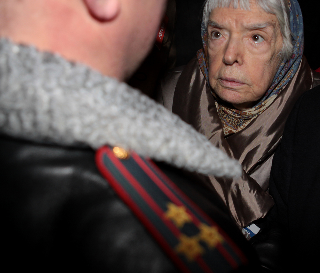 Lyudmila Alexeyeva. Protest action in defense of Article 31 (Freedom of assembly) of the Russian Constitution. Moscow, January 31, 2010